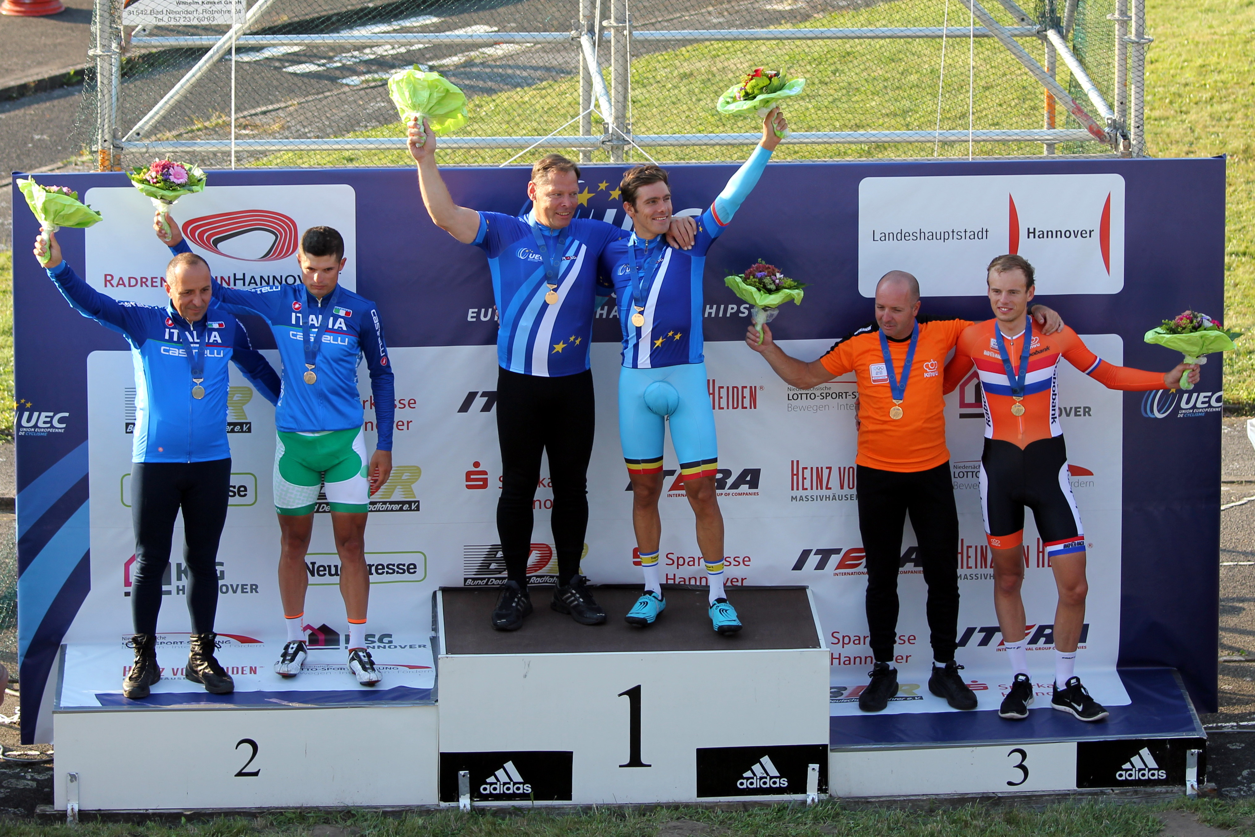 UEC Derny European Championship 2015 - Finals place 1 - 9, 120 laps / 40 km, f.l.t.r. Cordiano Dagnoni (Italy), Davide Viganò (Italy), Michel Vaarten (Belgium), Kenny De Ketele (Belgium), Herman Bakker (Netherlands), Jesper Asselman (Netherlands)